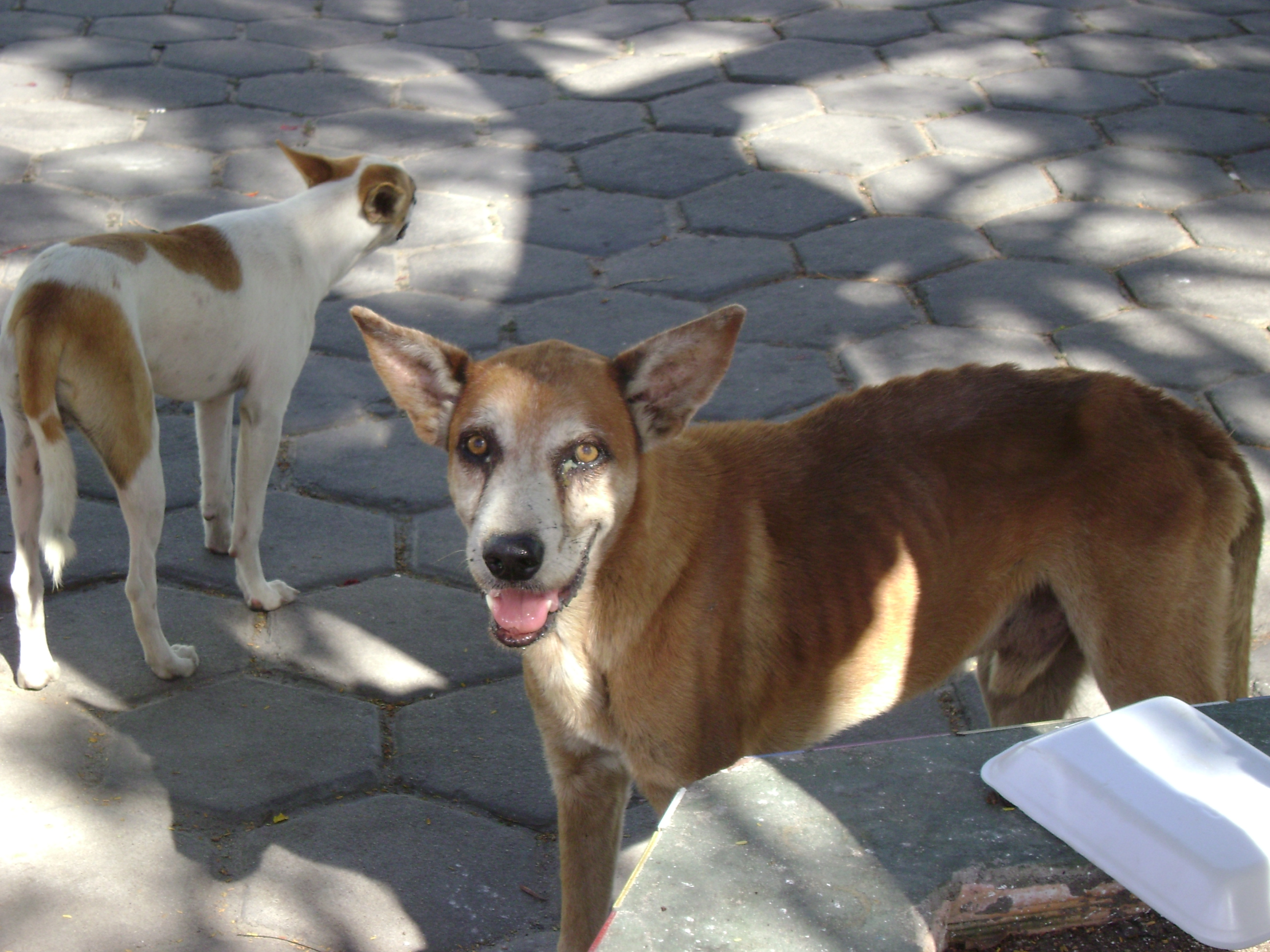 Dogs in Alcobaça, Bahia, Brazil.